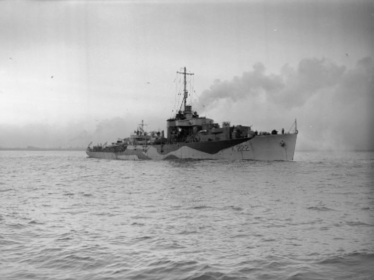 Photograph of River class frigate HMS Teviot.